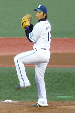 Futoshi Kobayashi, pitcher of the Shonan Searex, at Yokosuka Stadium.